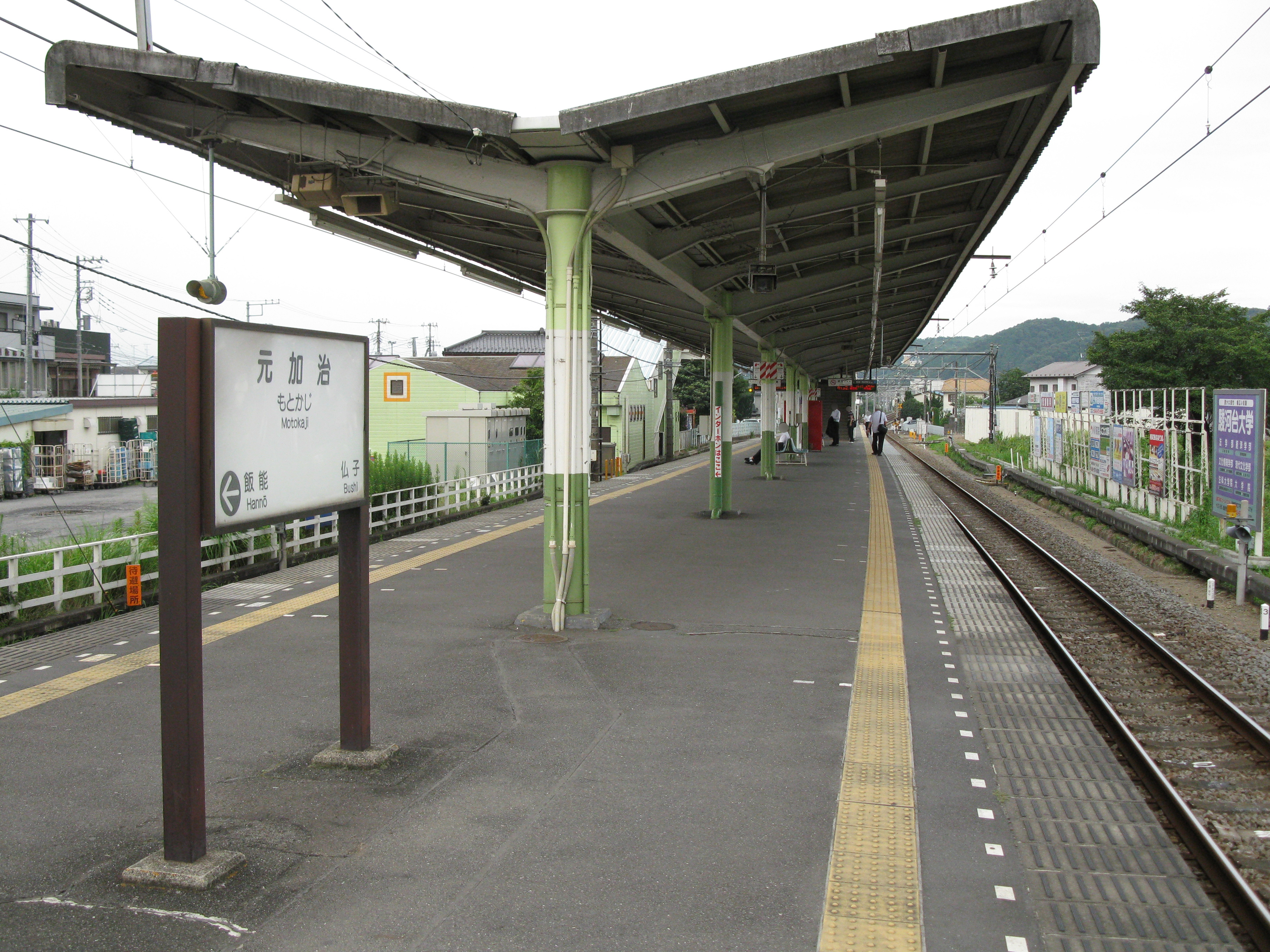 Motokaji Station platform (Seibu Railway Ikebukuro Line)